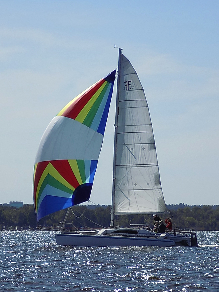 A Corsair F-27 Sport Cruiser trimaran sailboat named Zephyr, flying its spinnaker.